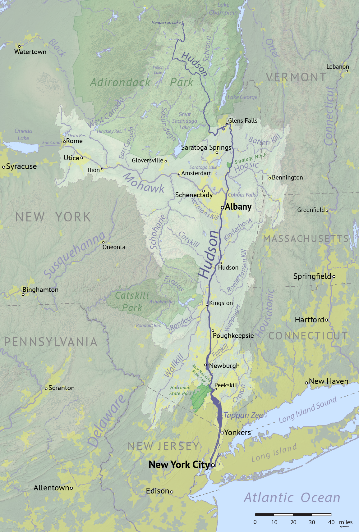 Map of the Hudson River drainage basin, made using USGS National Map data.